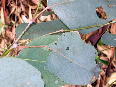 Eucalyptus blakely - Chatswood Shopping Centre